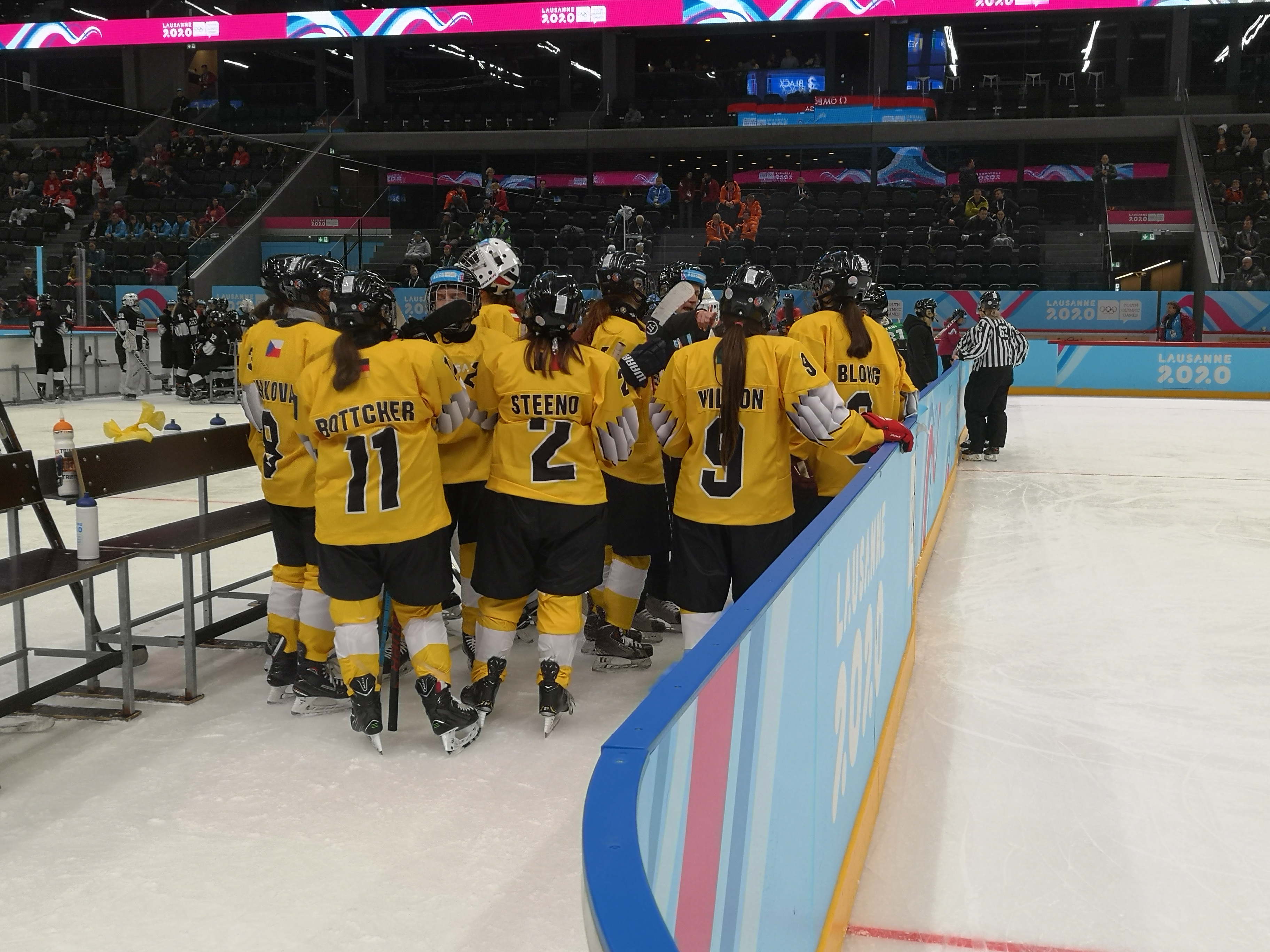 Girls' 3x3 mixed tournament – Round 1 – Yellow team: Czech Republic Zuzana Trnková, Belgium Anke Steeno, Germany Leonie Böttcher, Mexico Luisa Wilson, Australia Katya Blong